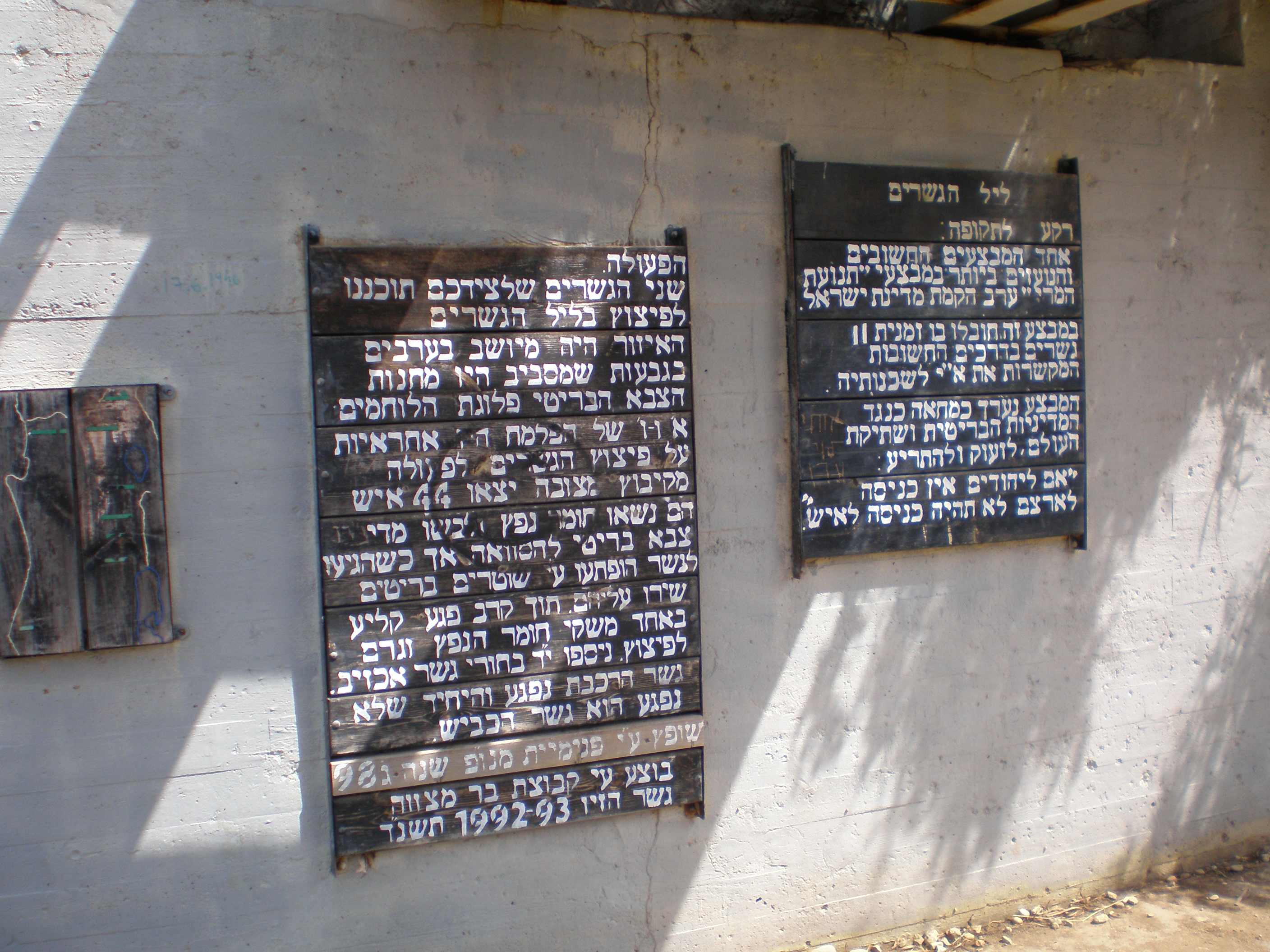 Bridge Night (ליל הגשרים) commemorative plaque, near Akhziv Beach (חוף אכזיב), Israel.